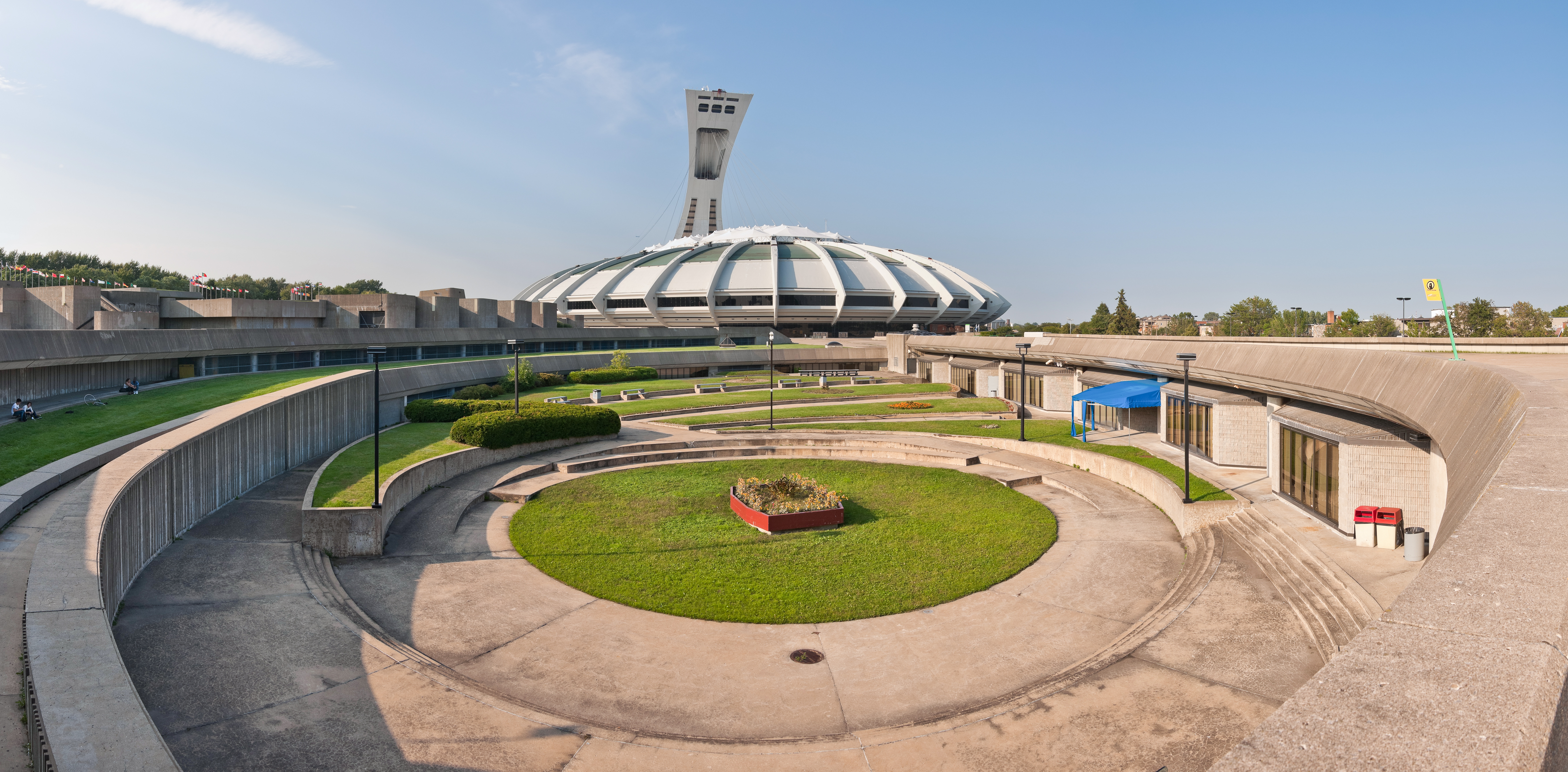 Panoramic view of the Olympic Park of Montreal, Canada. At the center, the Olympic Stadium. The tower is the tallest inclined structure in the world (175 mts - 574 ft high). It is possible to reach the top of the structure with the use of an elevator.